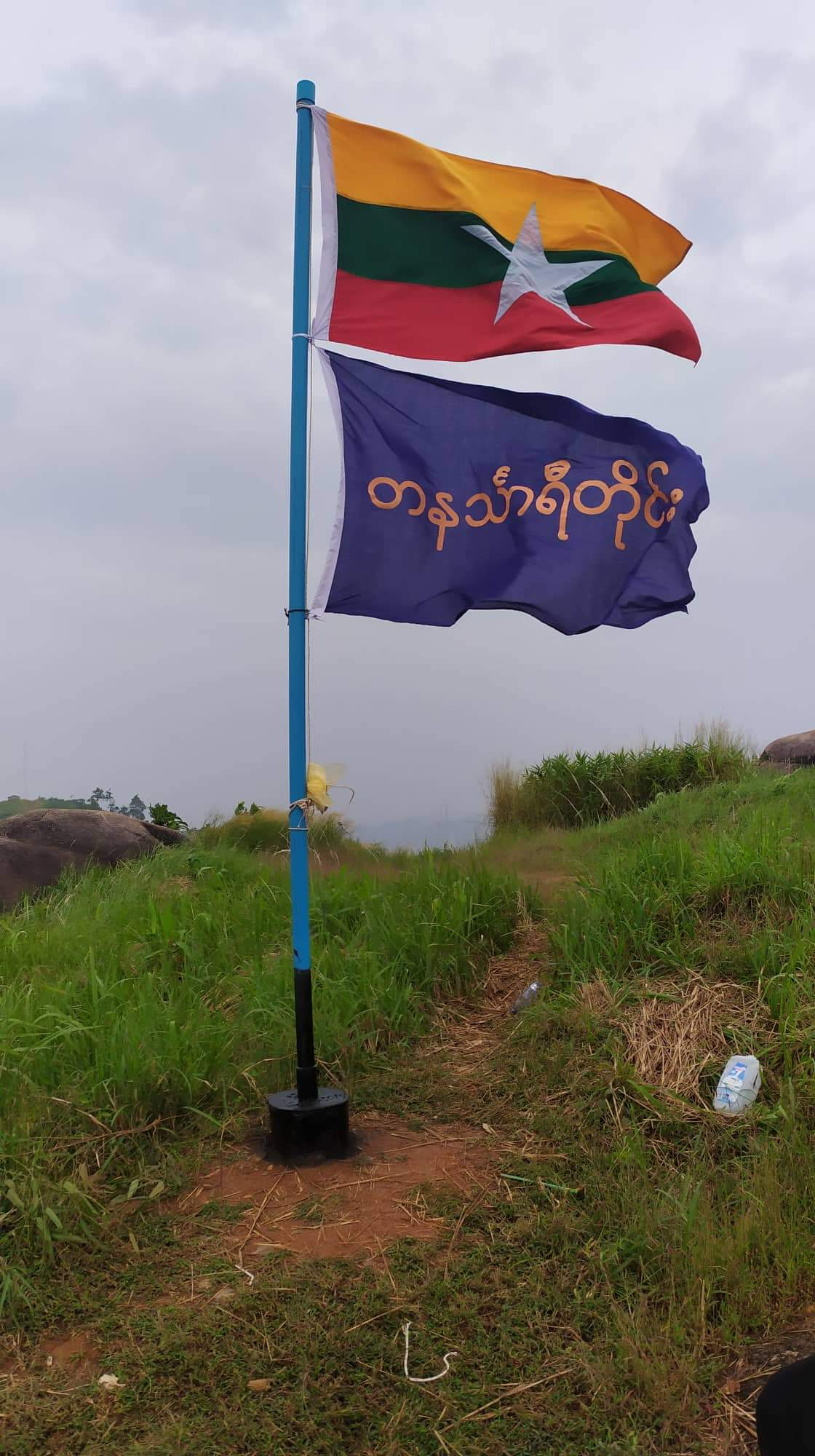 1199​တောင်ထိပ်တွင်မြန်မာနိုင်ငံအလံနှင့်တနင်္သာရီတိုင်း​ဒေသကြီးအလံ